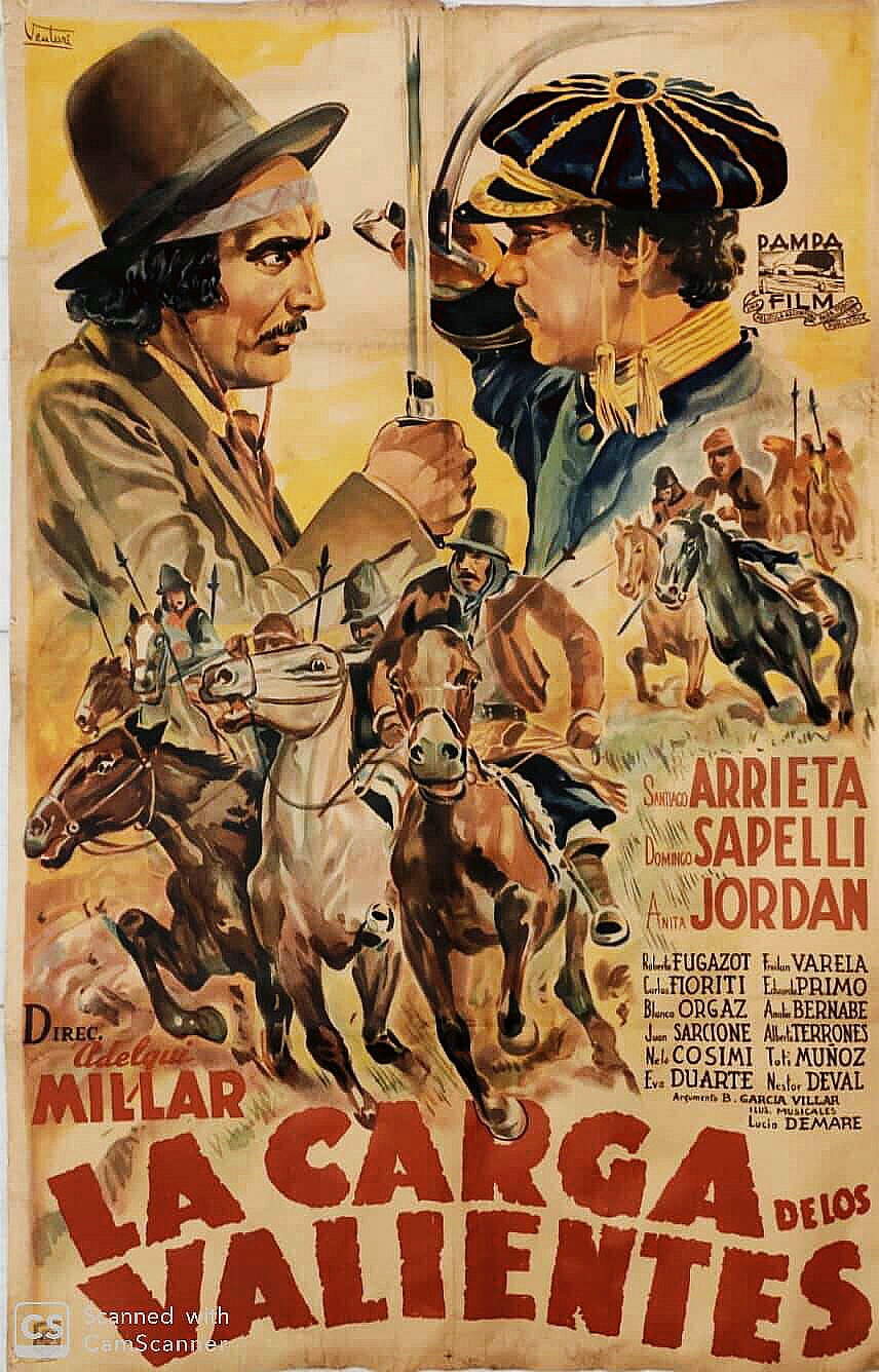 Movie poster